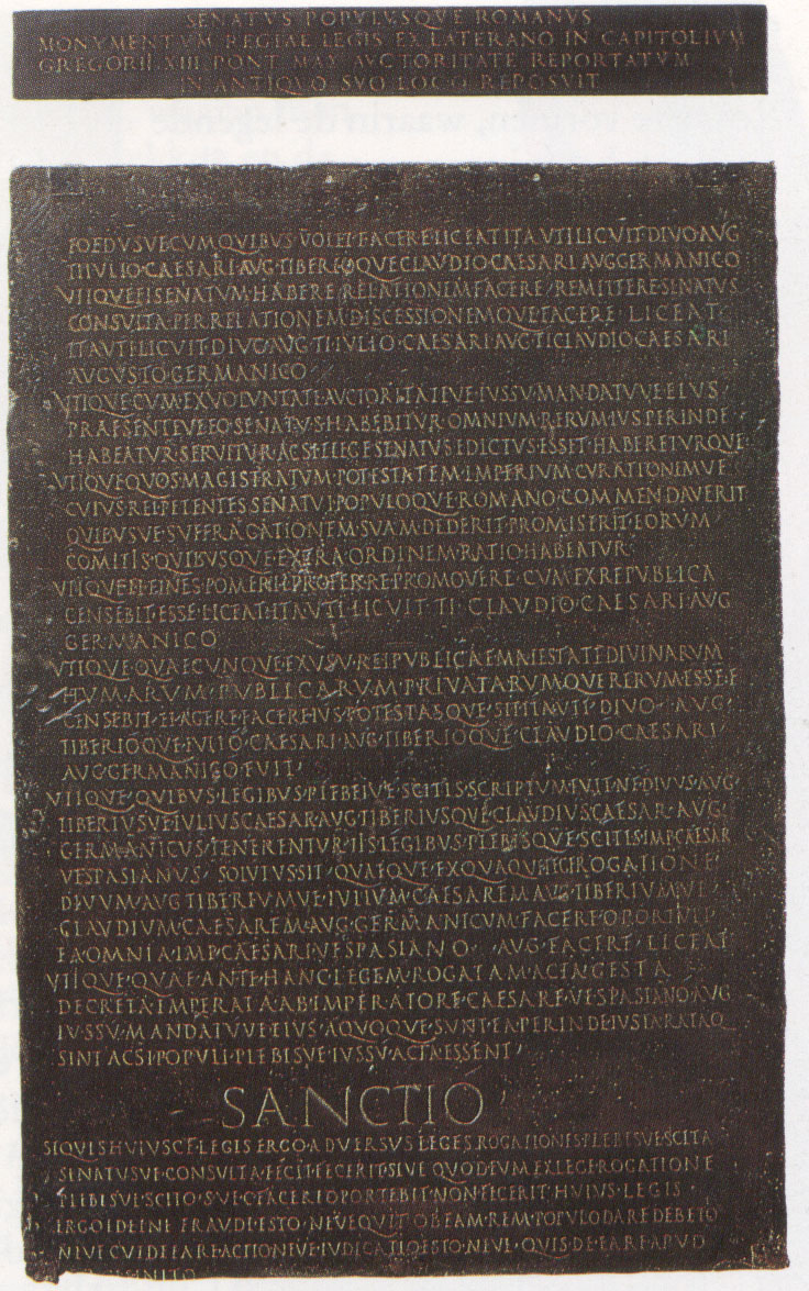 Bronze plate engraved with the imperial rights granted to Vespasianus.